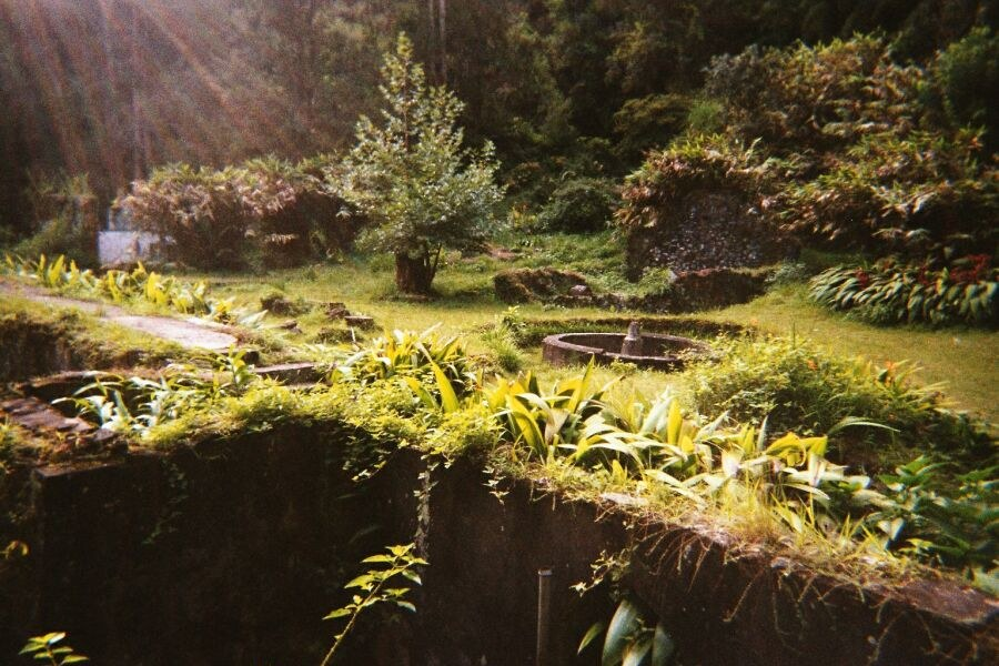 The remains of the once-famous thermal / mineral spa of Hell-Bourg, La Réunion, Indian Ocean, at the bottom of an overgrown ravine some minutes away from the village proper. I believe this is looking east.